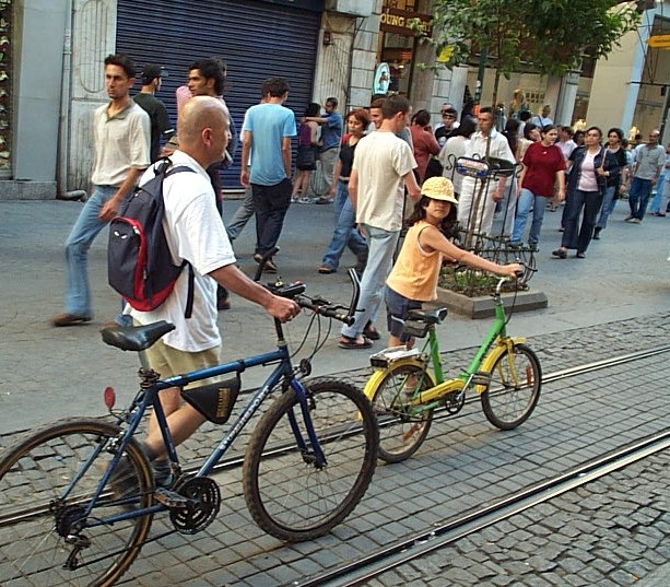 Beyoğlu, Istanbul